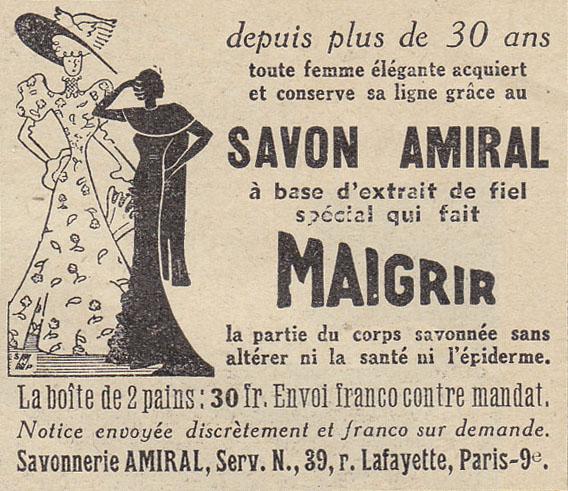 Advertising for an bile soap in Nouveautés